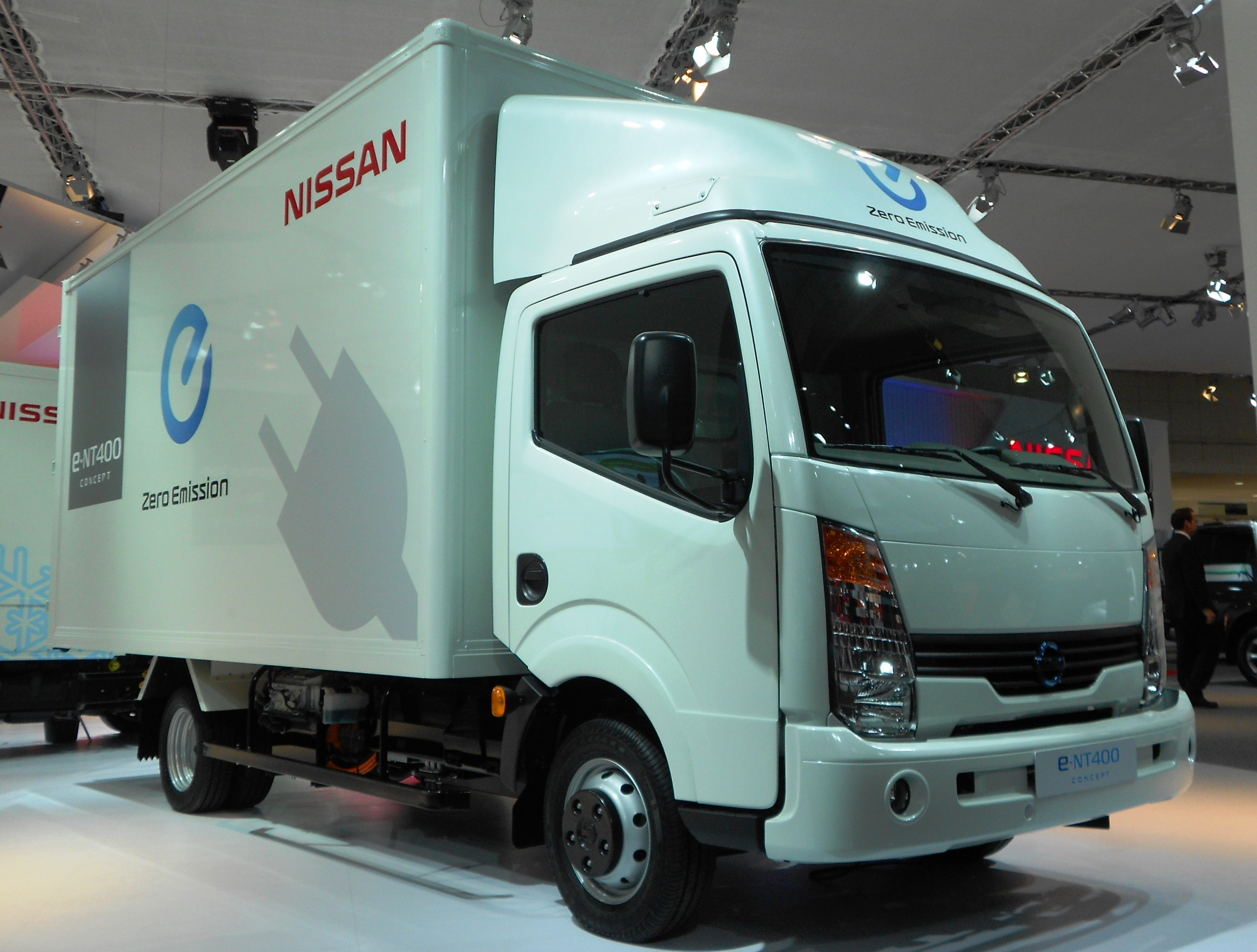 Nissan truck e-NT400 Concept, lithium ion accumulator, built 2012, photo taken at exhibition IAA 2012 in Hanover, Germany.